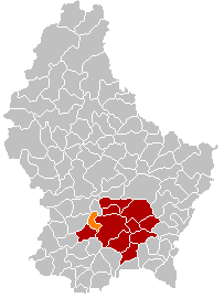 Own edit of Kanton LuxemburgLocatie.png